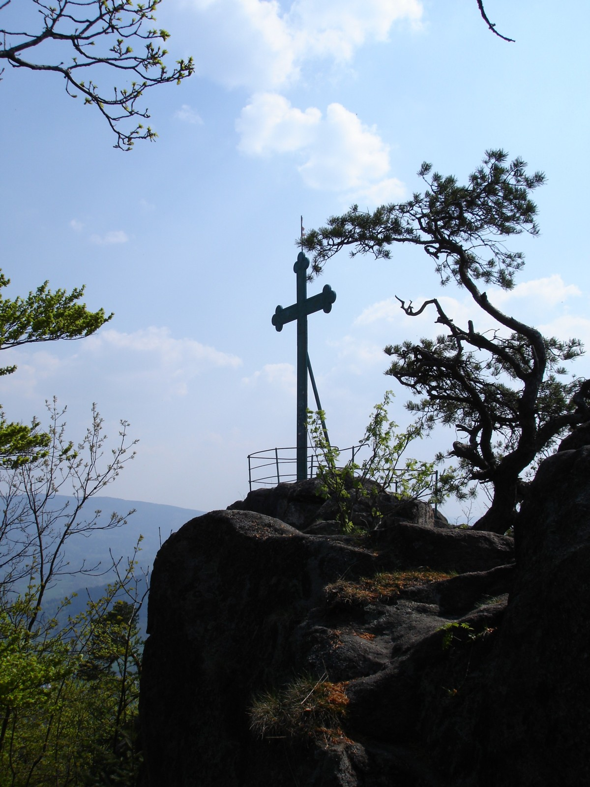 cruce at Krzyżna Góra, Rudawy Janowickie, Poland